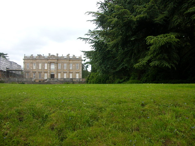 Easton Neston House, Northamptonshire, with building work in progress.